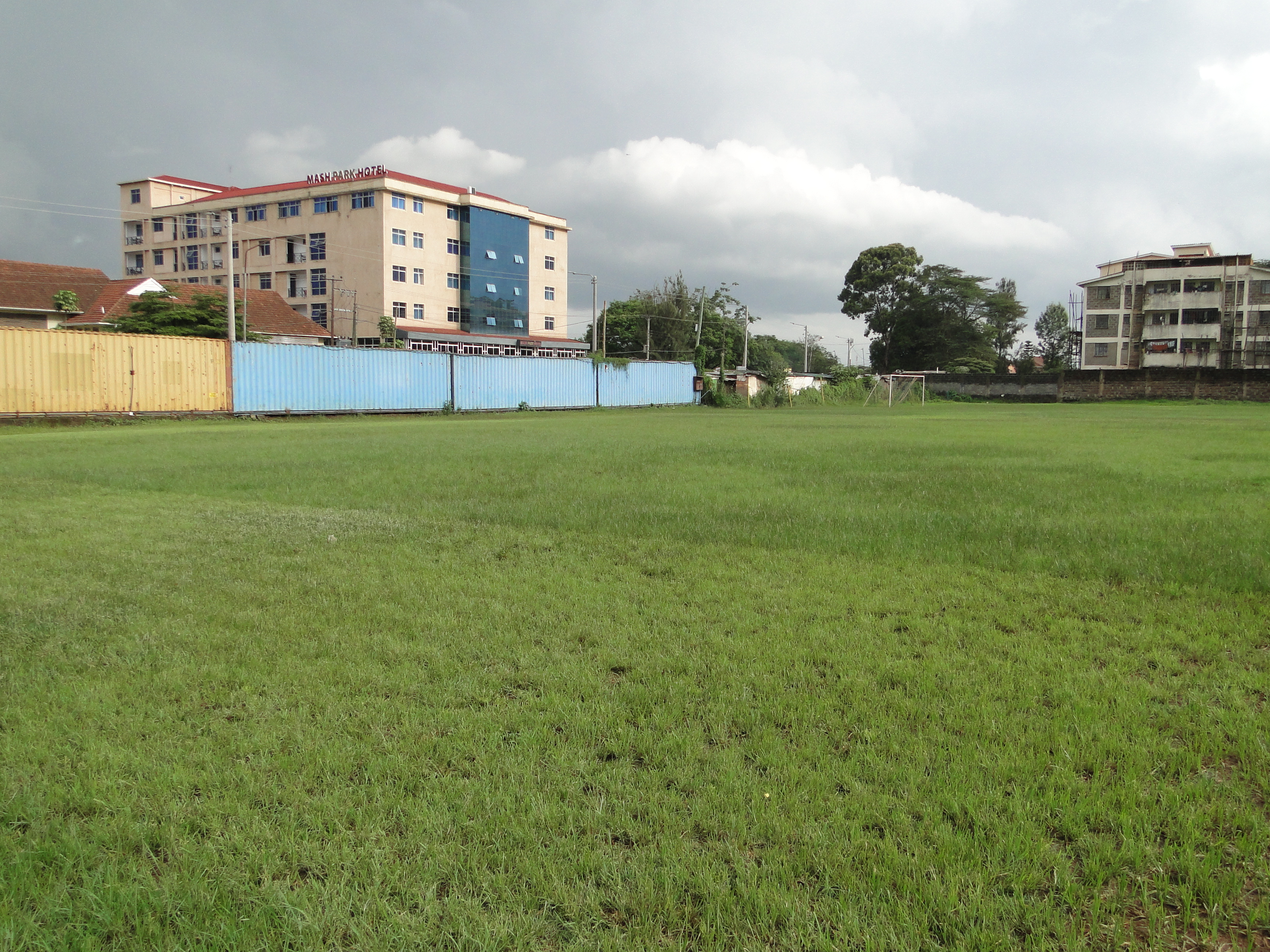 Ligi Ndogo football field